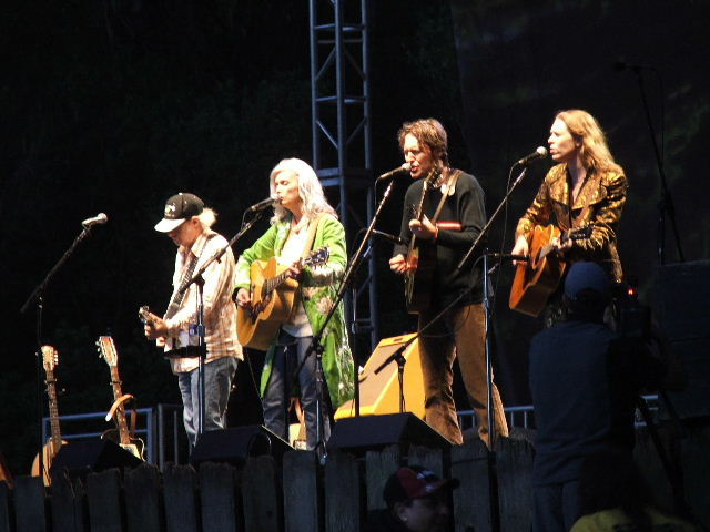 Hardly Strictly Bluegrass Festival 2005. Golden Gate Park, San Francisco, CA. Photo by Ron Baker.